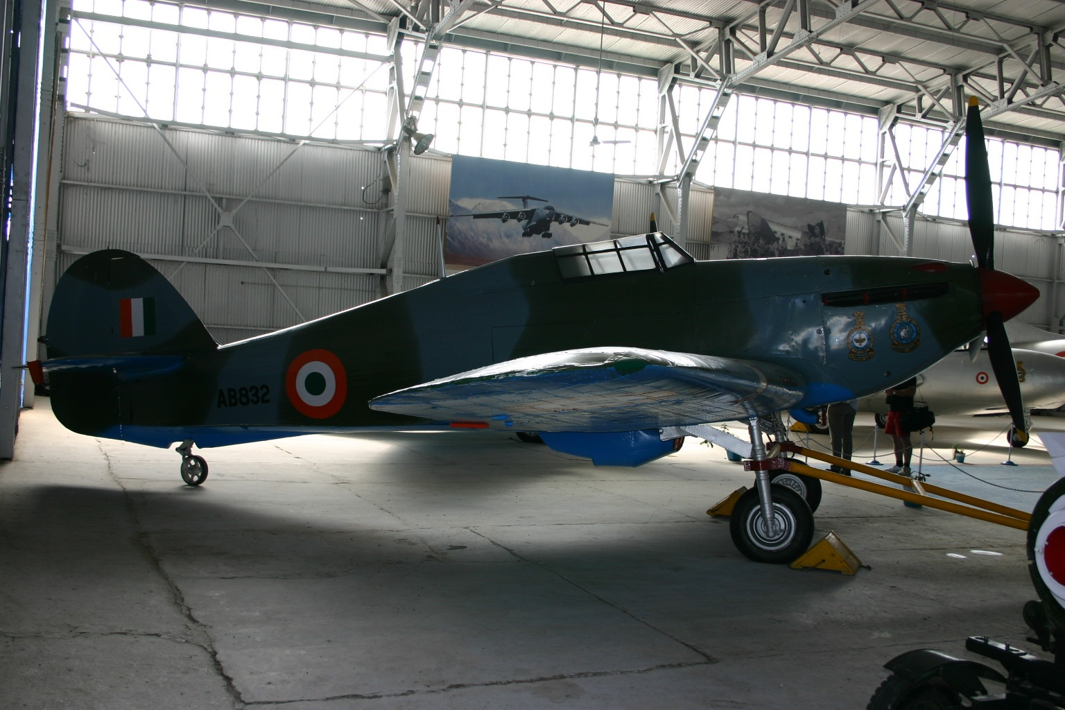 Hawker Hurricane at Indian Air Force Museum Palam